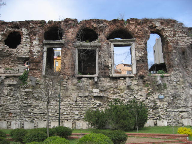 View of the ruined Bucoleon (or Boukoleon) Palace on the shores of the Bosphorus, Istanbul.